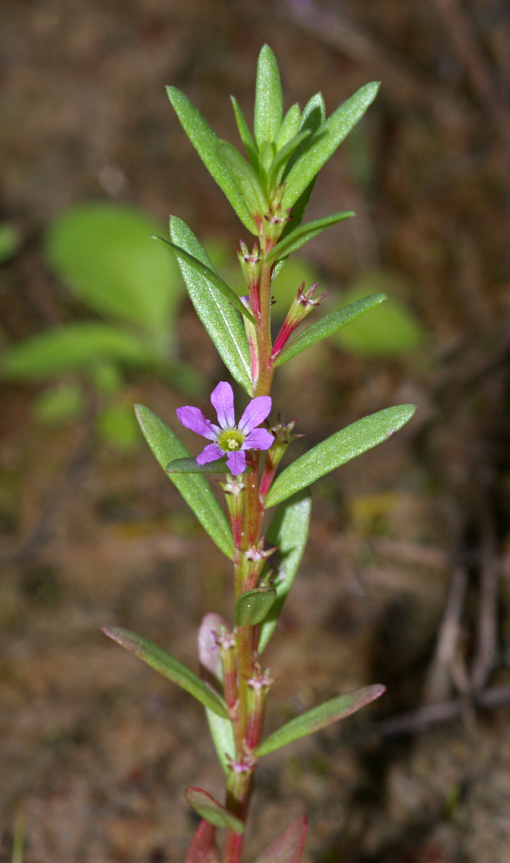 The small and rare plant Lythrum hyssopifolia.